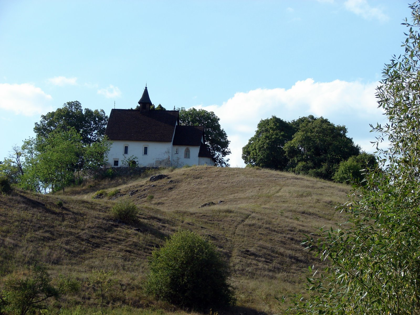 Medieval twin sanctuary church in Tornaszentandrás